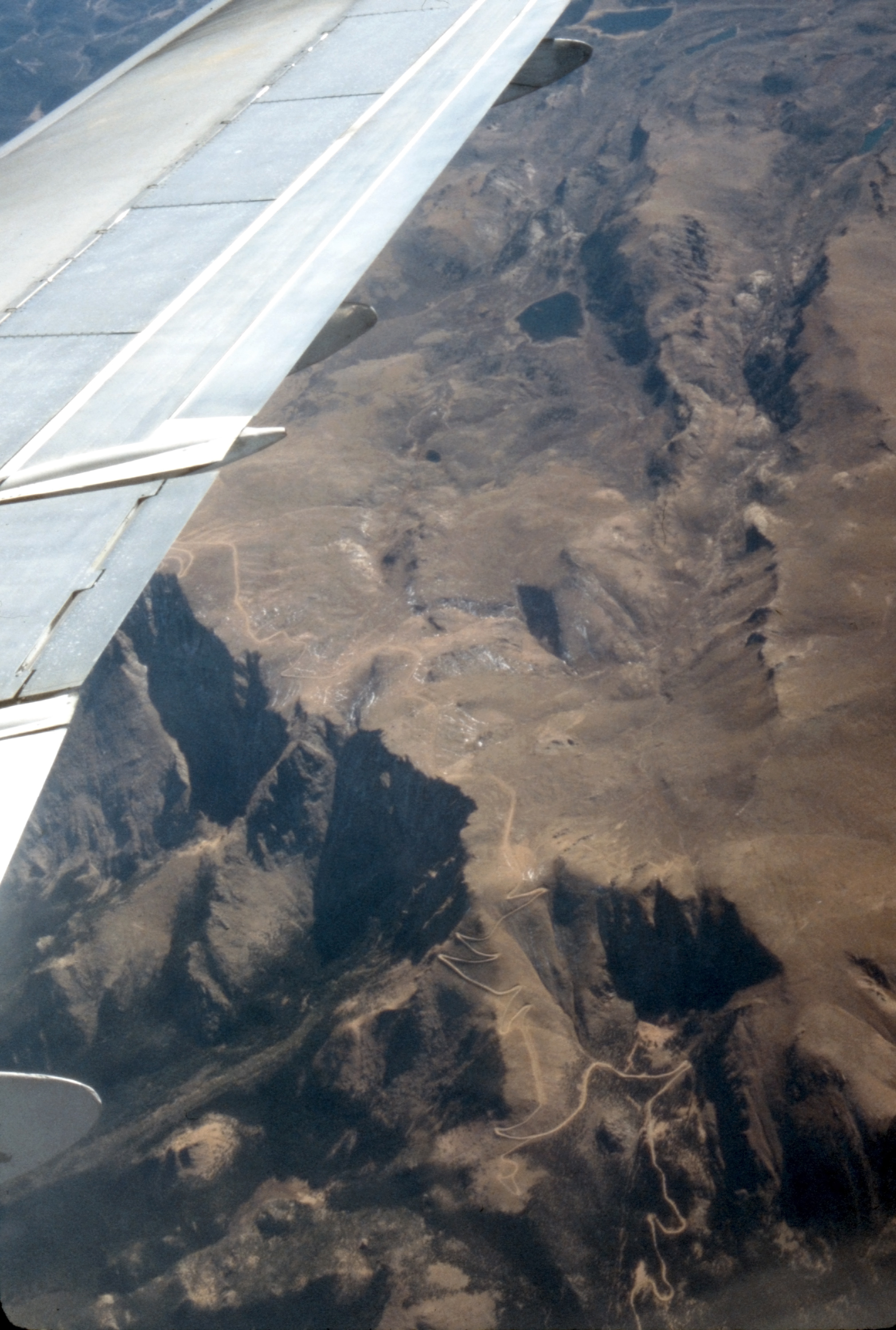 View of Pikes Peak from window of American Airlines Flight 416, a Boeing 727, enroute to LAX at 33,000 feet altitude. A portion of the Pikes Peaks Highway is visable at lower right of photo starting at approximately Mile Post 12 and ending at Mile Post 19 at aft edge of plane's wing. The highway is site of various races, including runners, bicyclists, motorcycles and many classes of automobiles, with the most famous the Pikes Peak International Hill Climb held annually since 1916. The road is currently all paved but when photo taken on 16 October 1977 it consisted of dirt and gravel. (Scanned from 35mm Ektachrome ED200 slide)